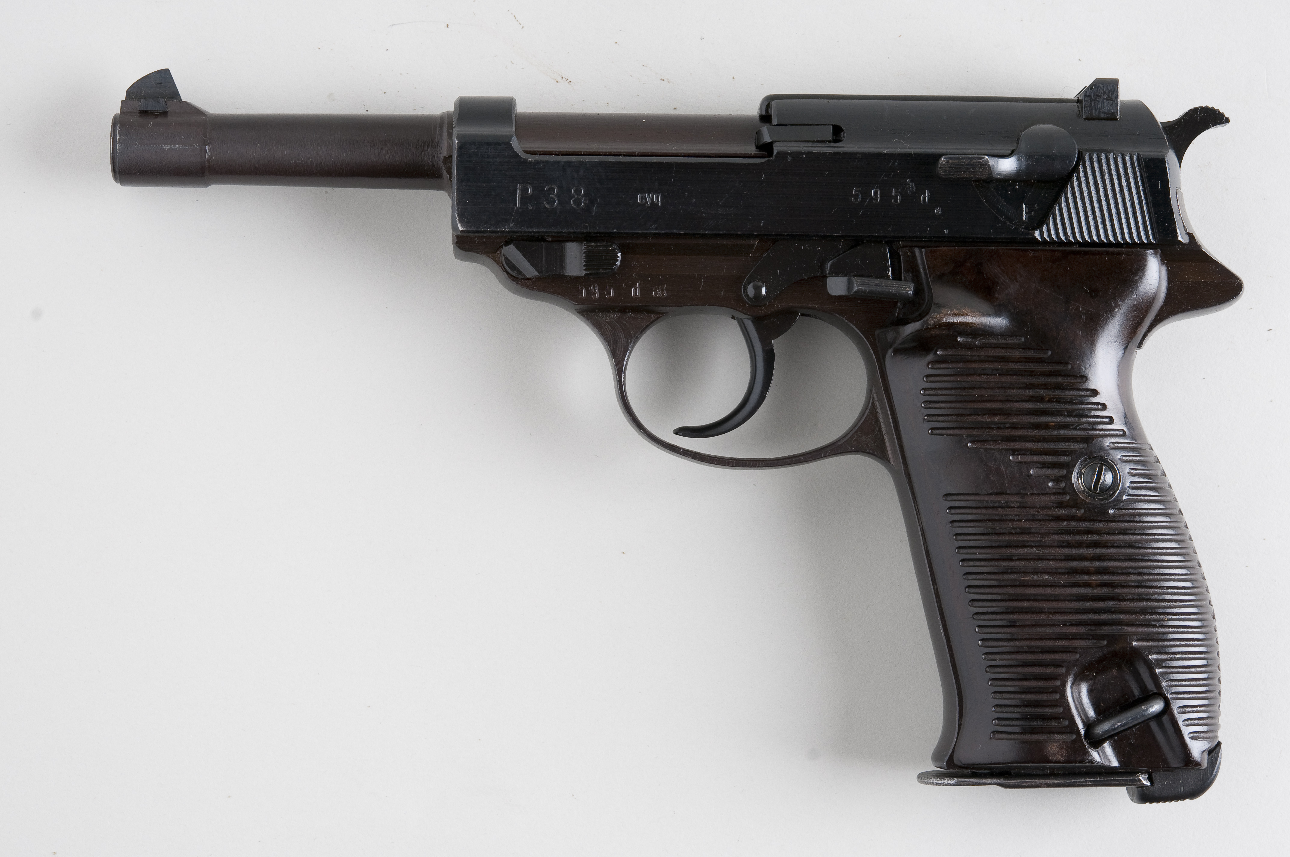 Spreewerk manufactured Walther P38 From flickr user handvapensamlingen - Pistols used in Norway.